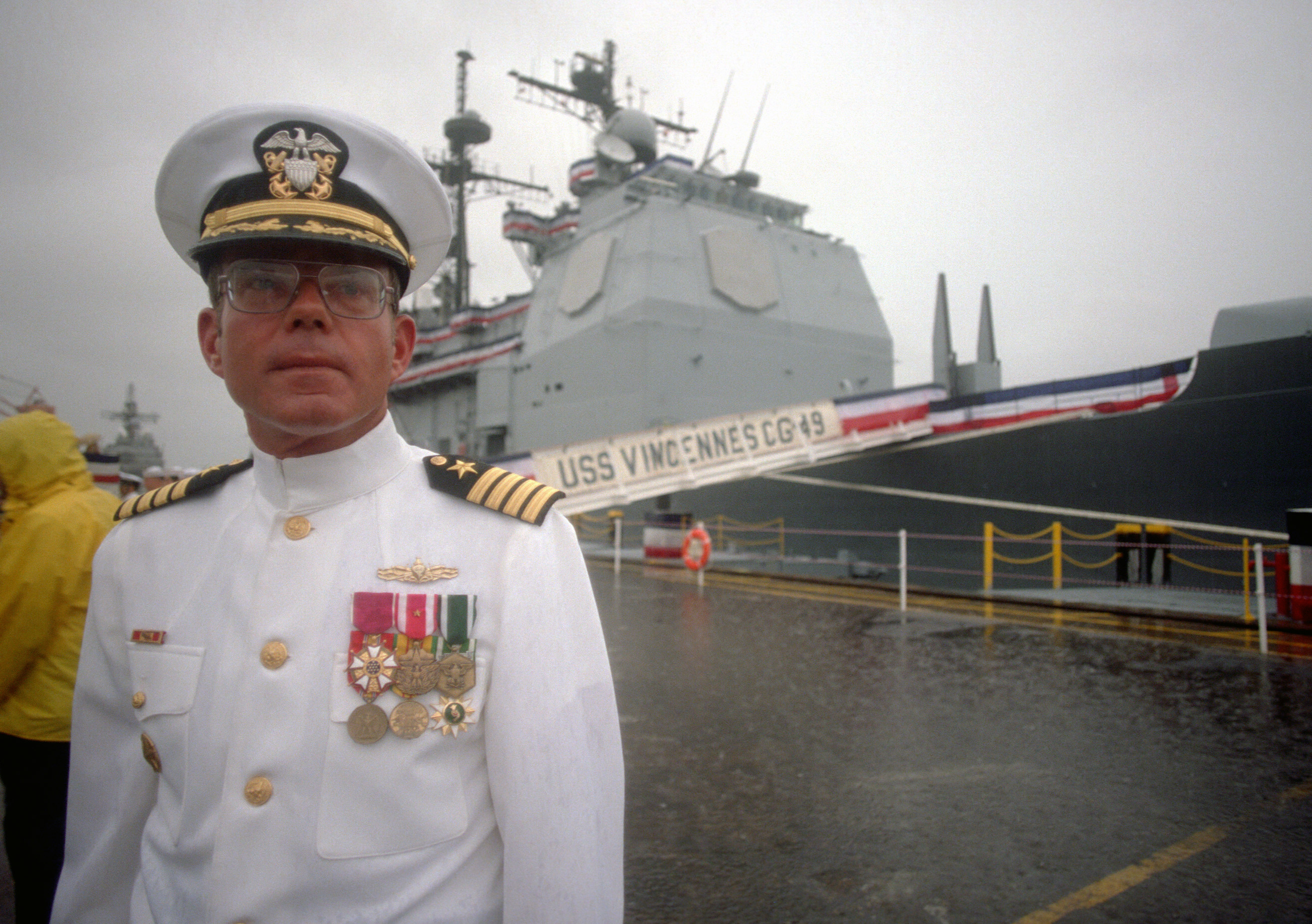 Captain George N. Gee, commanding officer of the Aegis guided missile cruiser USS VINCENNES (CG 49), attends the ship's commissioning ceremony.Location: PASCAGOULA, MISSISSIPPI (MS) UNITED STATES OF AMERICA (USA)